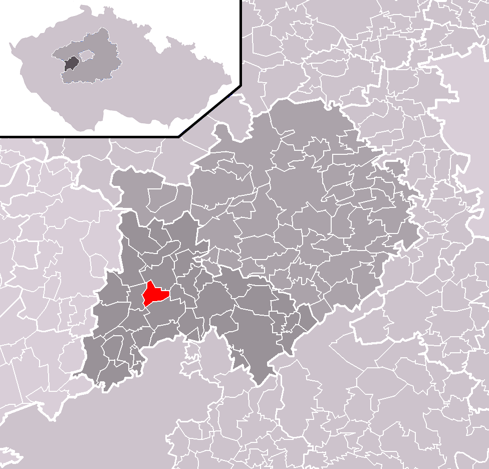 Location of Tlustice municipality within Beroun District and administrative area of Hořovice as a Municipality with Extended Competence.